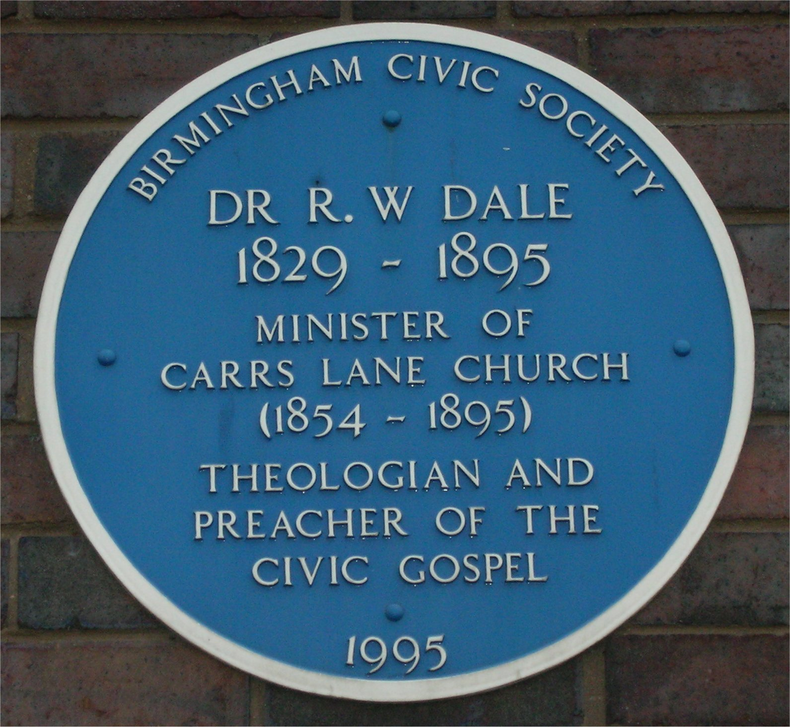 Blue plaque to Robert William Dale, nonconformist preacher, on Carrs Lane Church, Birmingham, England. Photographed by me 18 September 2006. Oosoom